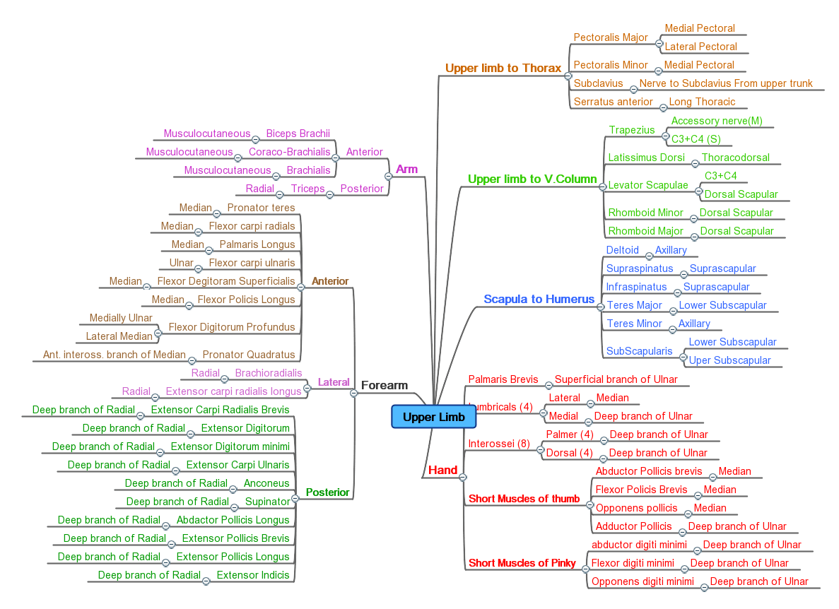 Upper Limb Muscle innervation corrected, to requst a mind map please see my page on wikipedia Madhero88